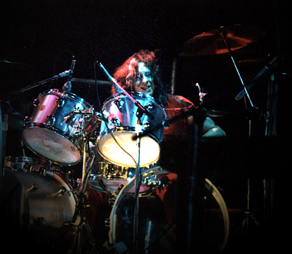 Dennis Elliott playing drums